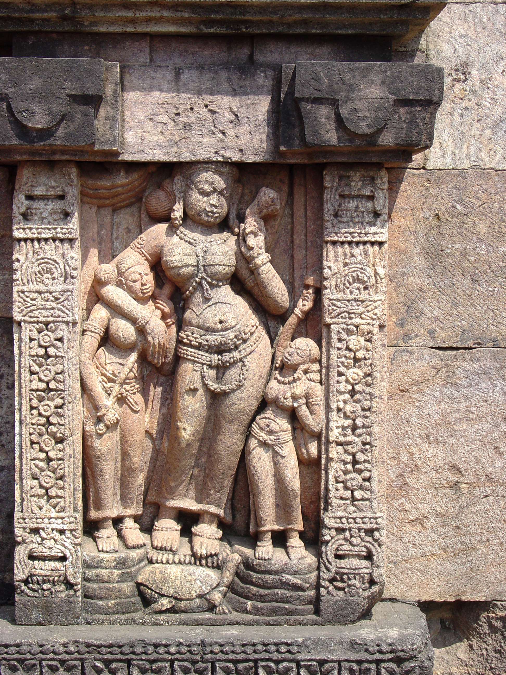 The River Yamuna, a Pan-Indic Prosperity Motif. South inner wall and entrance of Monastery 1, Ratnagiri